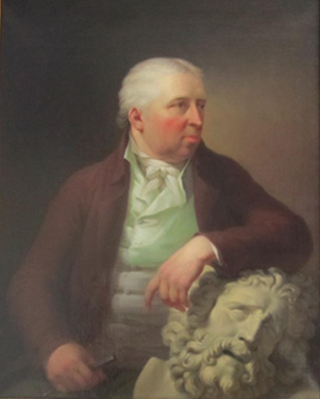 Portrait of Danish sculptor Nicolai Fajon.